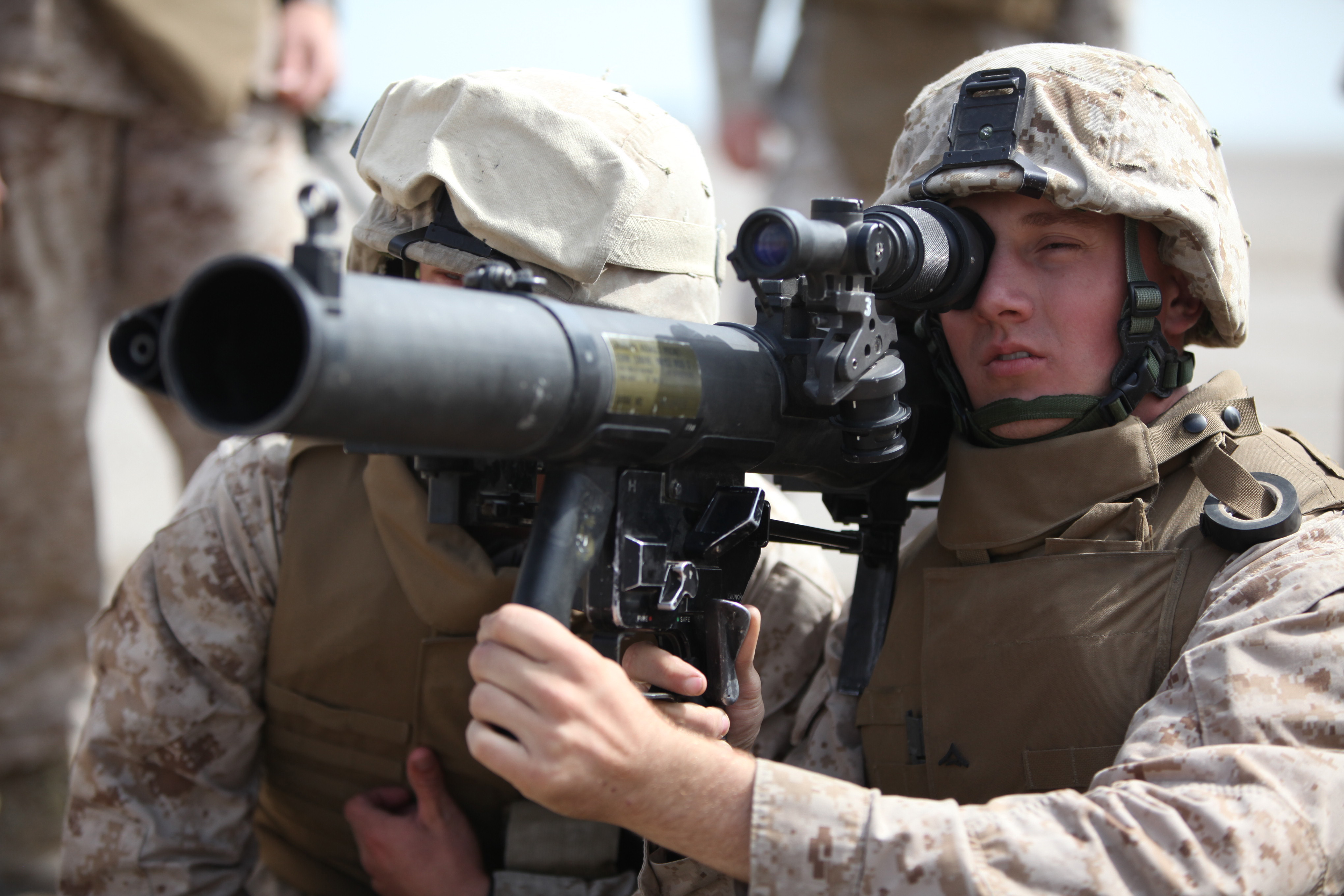 U.S. Marines with Special Purpose Marine Air-Ground Task Force 24 show Peruvian marines how to fire a shoulder-launched multipurpose assault weapon in Salinas, Peru, on July 10, 2010. The U.S. Marines are embarked aboard the transport dock ship USS New Orleans (LPD 18) in support of Partnership of the Americas/Southern Exchange, a combined amphibious exercise with maritime forces from Argentina, Mexico, Peru, Brazil, Uruguay and Colombia.